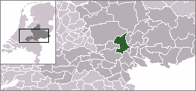 Location of Arnhem